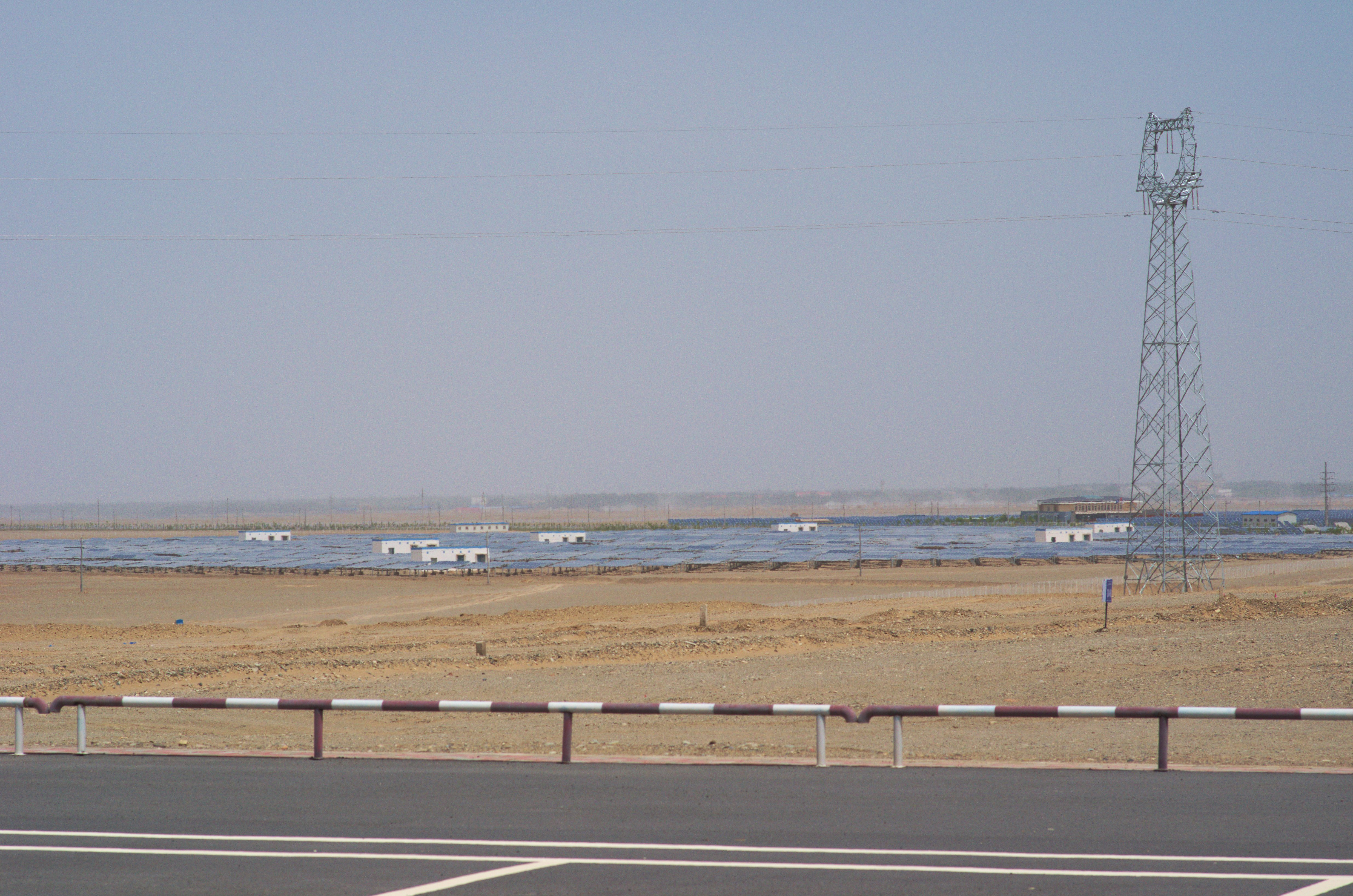 9 km² field of photovoltaique pannels in Dunhuang, Gansu province, China.